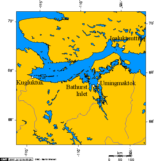 Some communities of Western Nunavut